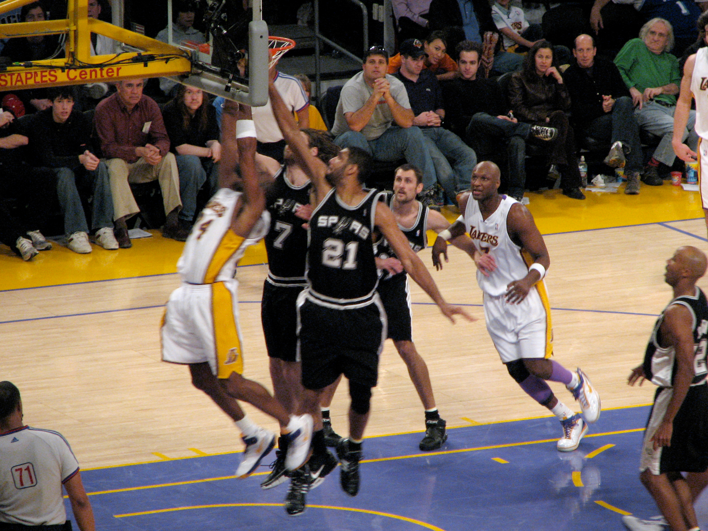 Photo of action during a San Antonio Spurs (in black) and Los Angeles Lakers game.